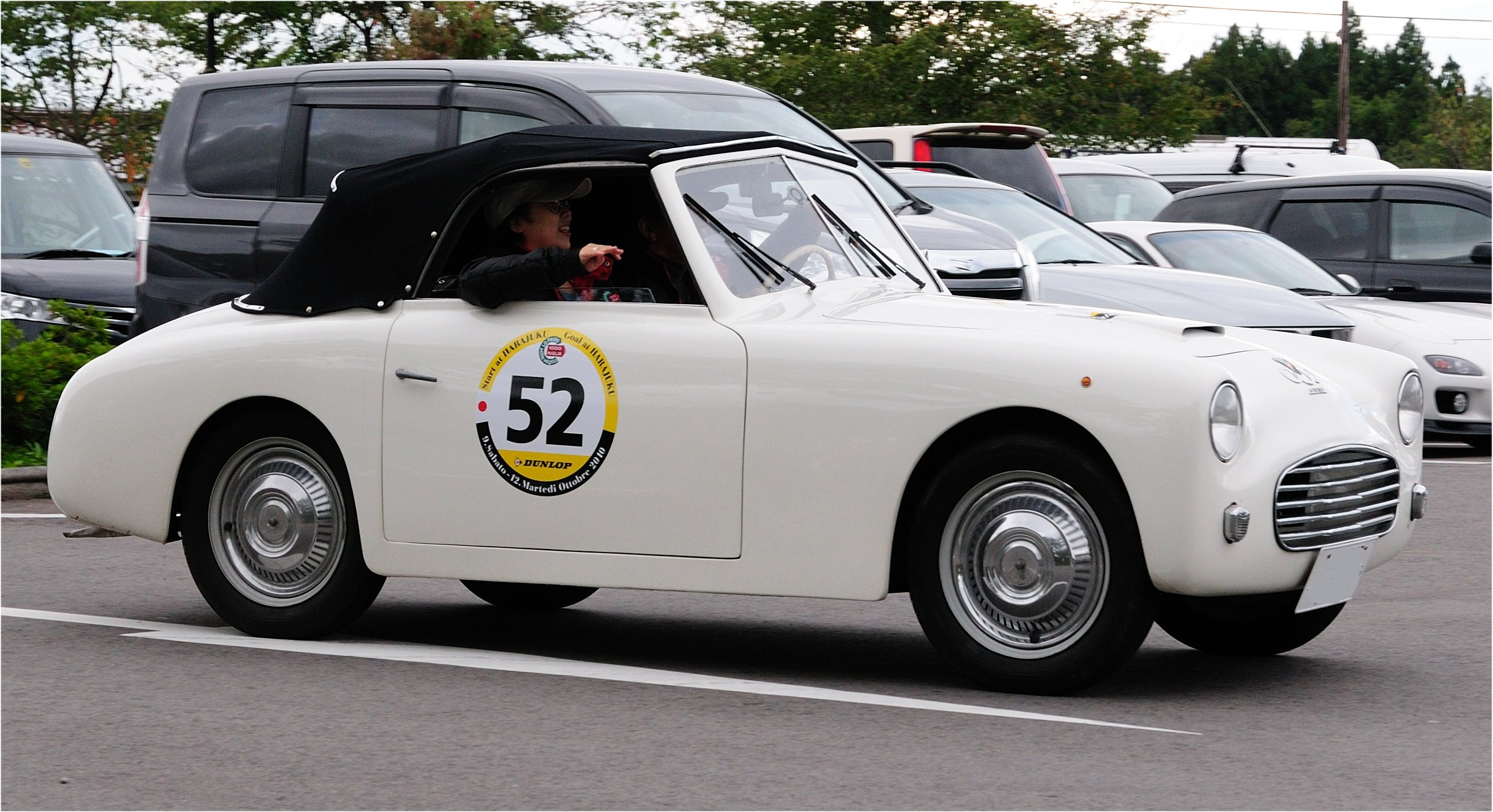 Siata Amica of 1949, derived from the Fiat 500 "Topolino", with box frame, change the steering wheel and upgraded to 20 hp motor that allows the maximum speed of 110 km/h. The body was built by Bertone.